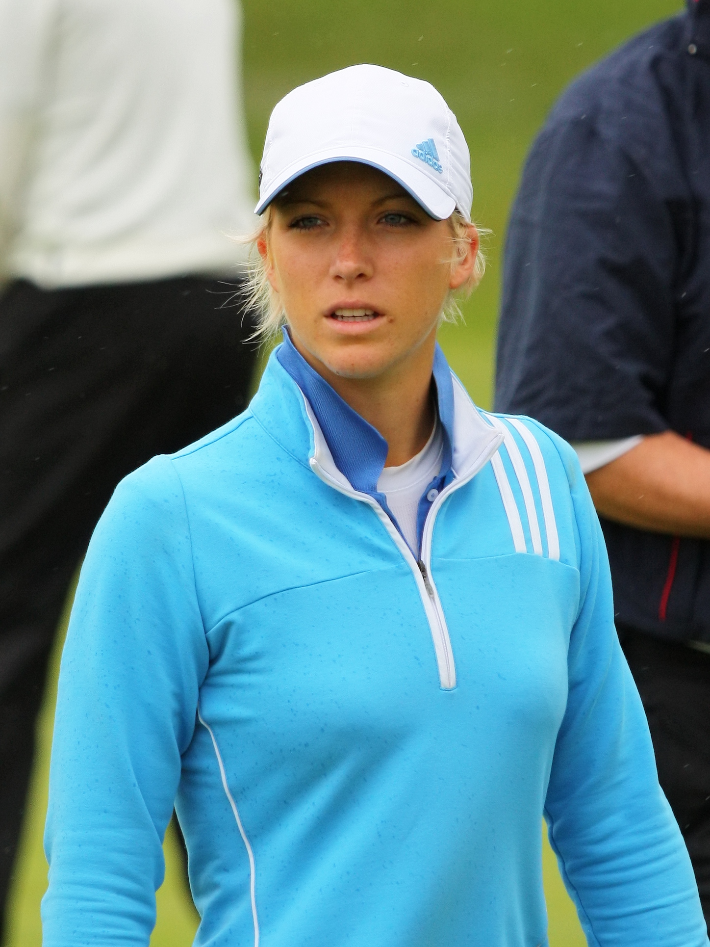 SOUTHPORT, UNITED KINGDOM - JULY 27: Melissa Reid of England walks off the 8th green during pro-am round before 2010 Ricoh Women's British Open held at Royal Birkdale on July 27, 2010 in Southport, England. (Photo by Wojciech Migda)